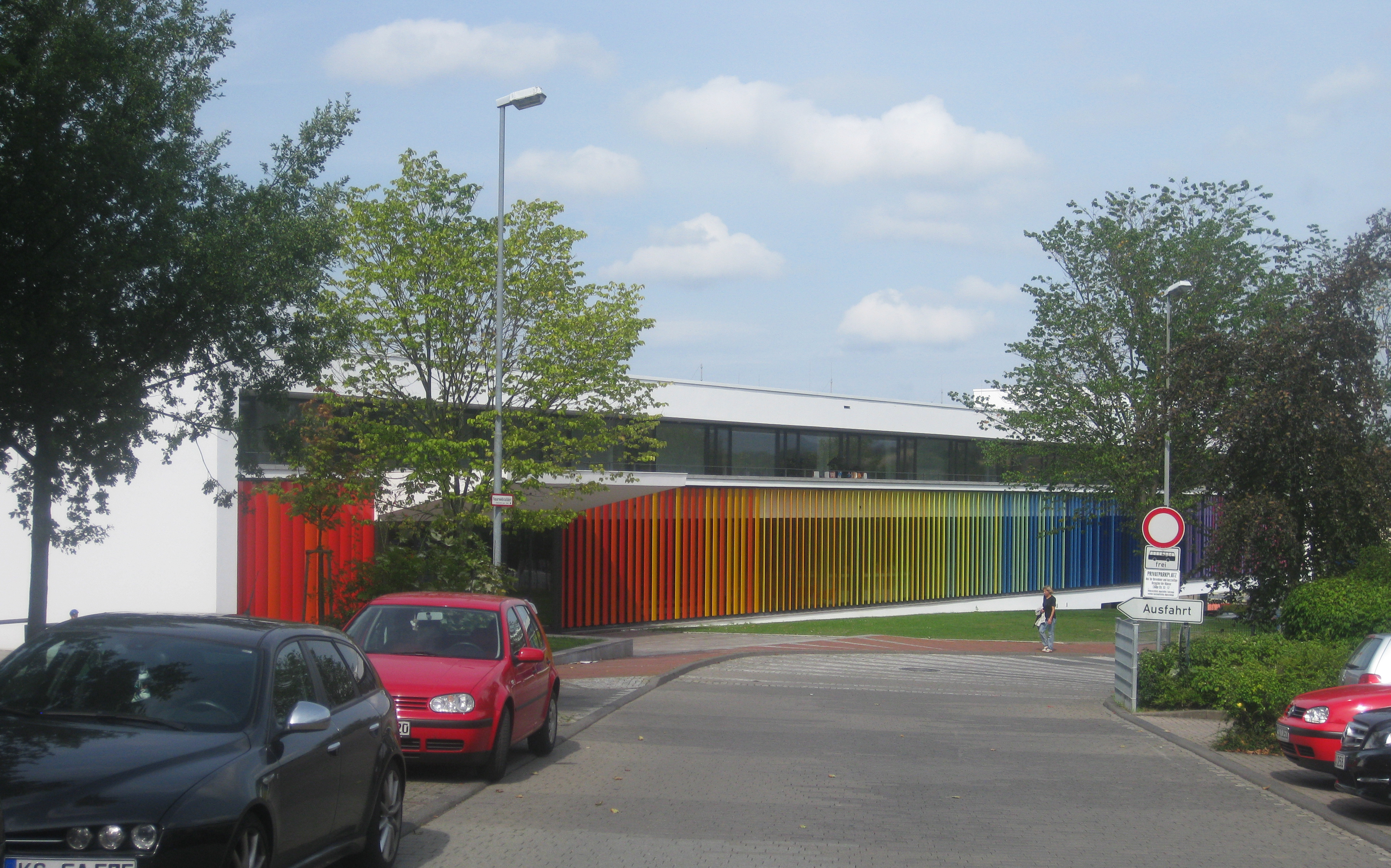 Söhre school ans library in Lohfelden. Architect: Schultze Schulze Bauten